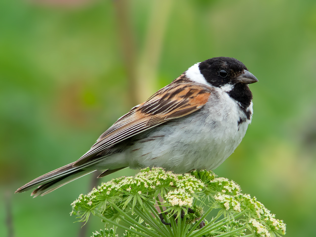 Reed Bunting,Emberiza schoeniclus,Hokkaido,Japan